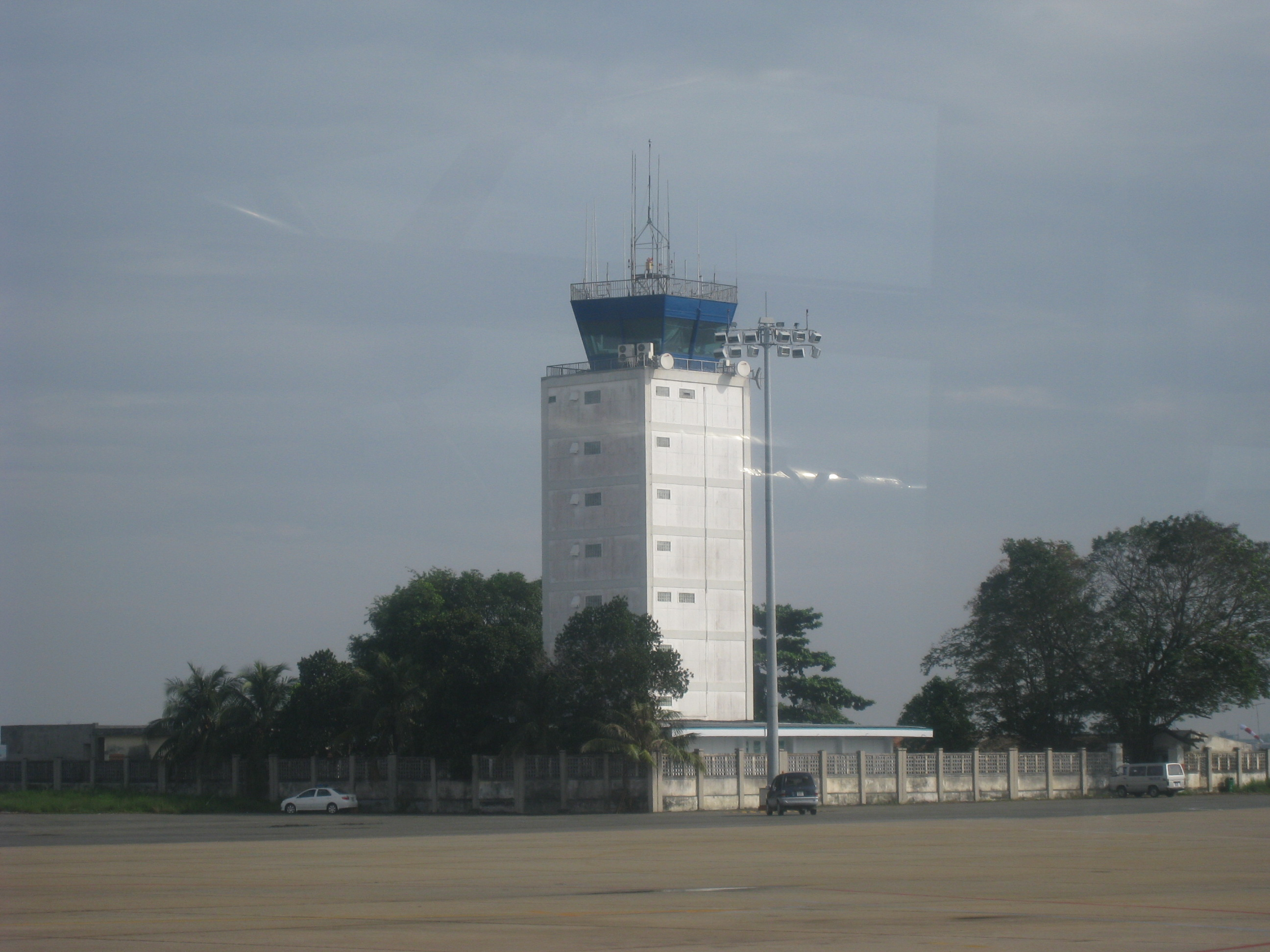 Air Traffic Control in Tan Son Nhat Airport, Saigon, Vietnam